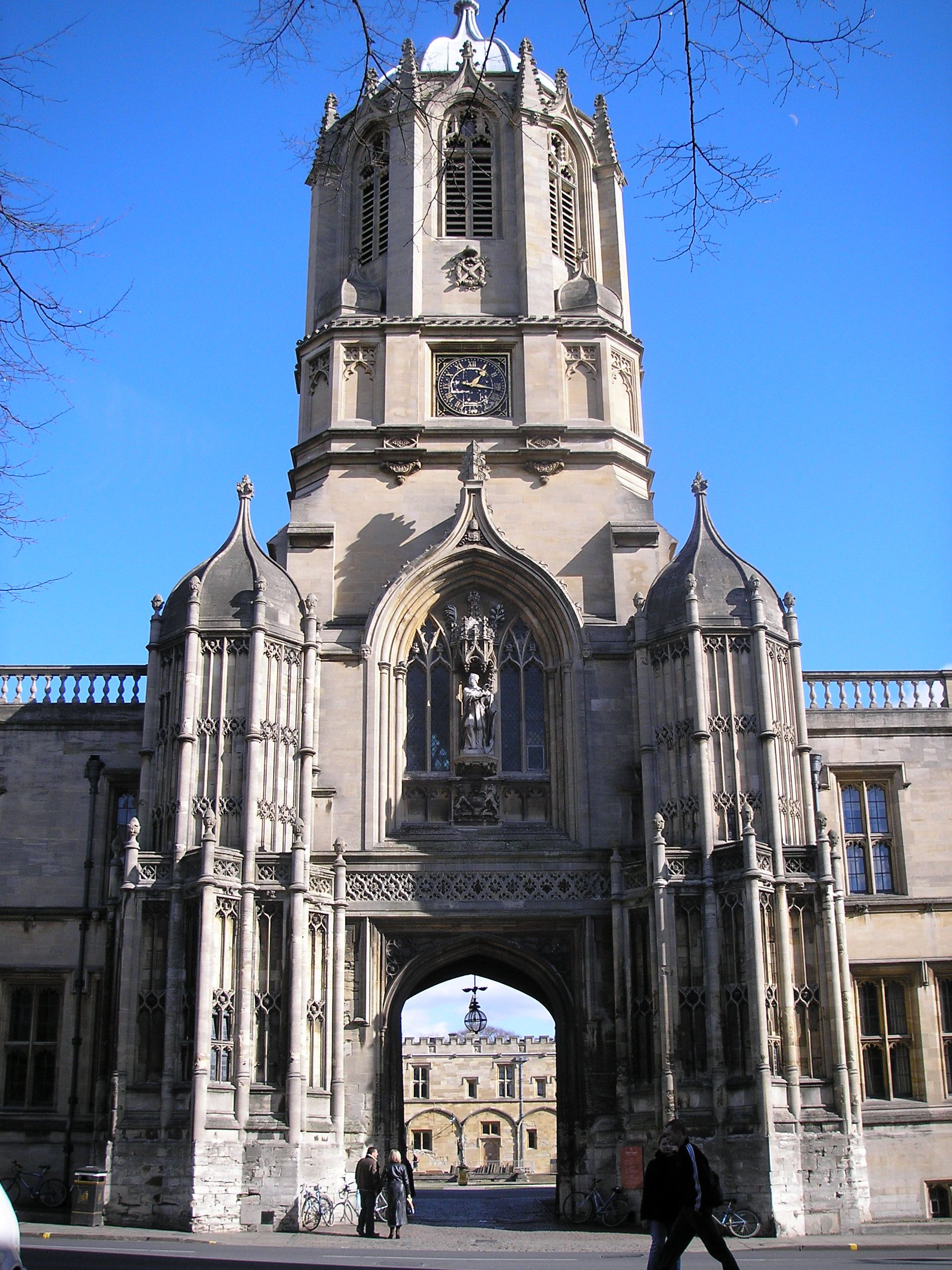 Picture of Tom Tower taken with Olympus IR-300 on 6 March 2006 at 14:17 GMT from Pembroke Square across St Aldate's. I took the picture and release it to the PD.